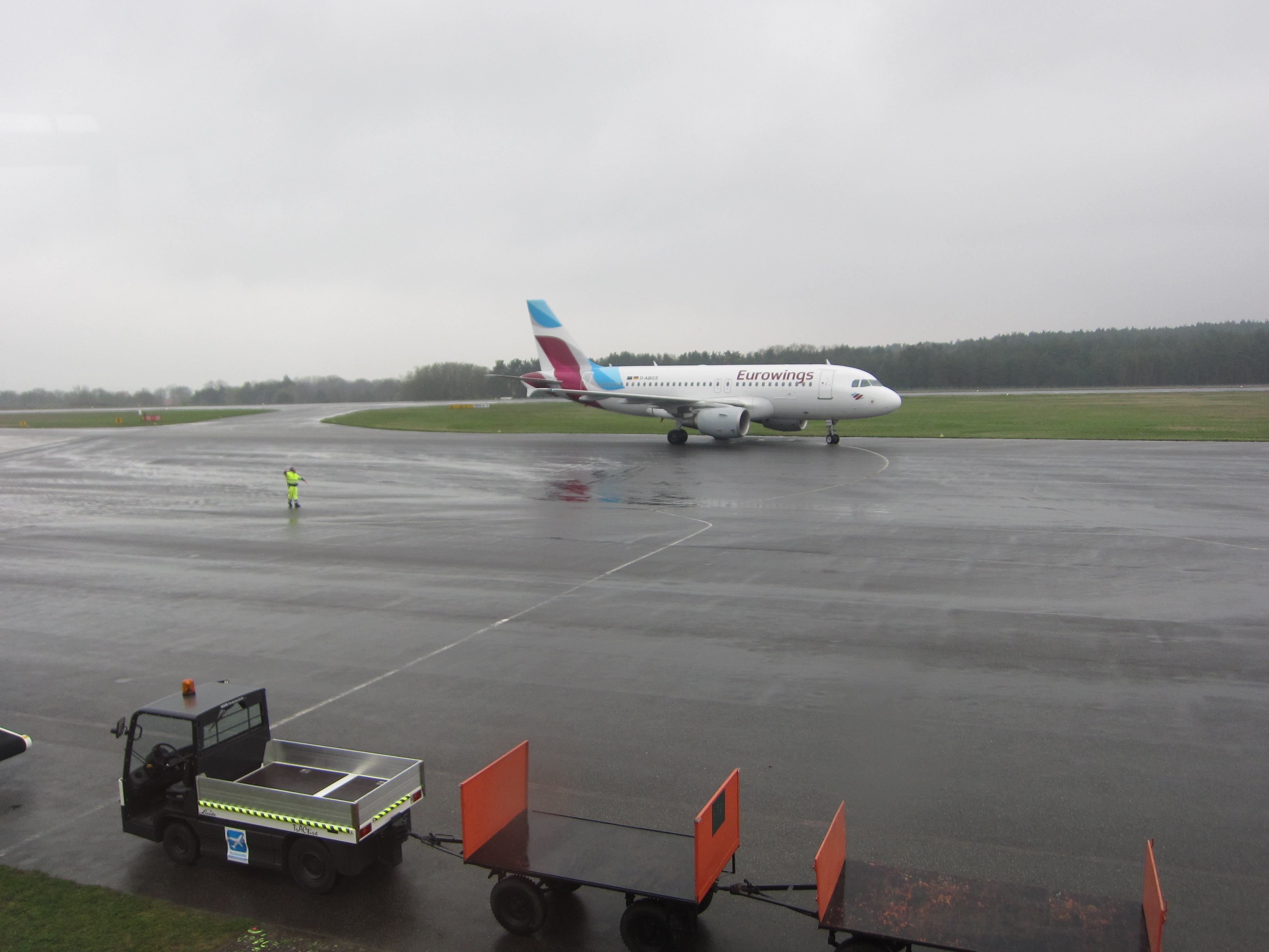 Aircraft D-ABGS of type Airbus A319 at Heringsdorf airport. Arrival of Eurowings flight EW9060 (operated by Air Berlin) from Düsseldorf.